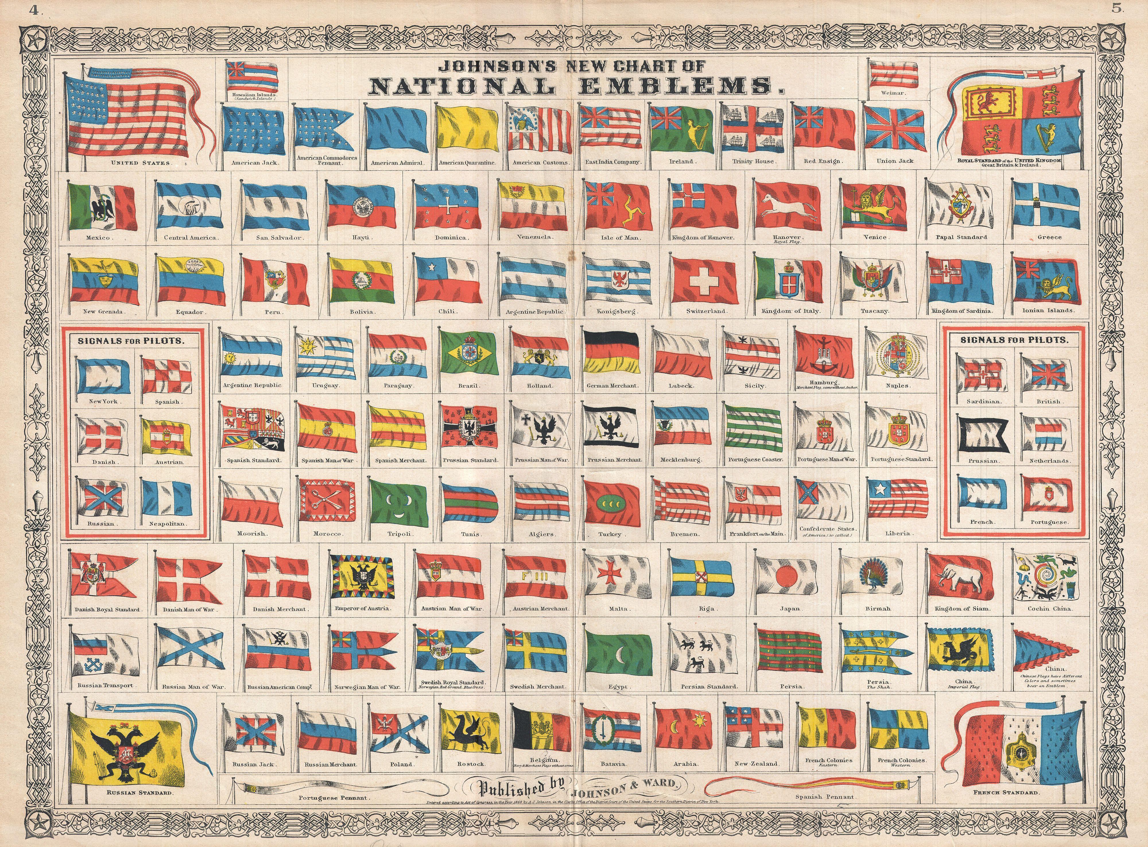 A beautiful first edition example of A. J. Johnson’s highly decorative 1864 chart of the world’s flags and national emblems. Johnson first introduced this chart in 1863 edition of his atlas. Though common in European, particularly English atlases, Johnson was the first American mapmaker to draw a national emblems or flag chart. Such charts were practical in port cities like New York, Boston, and London where military and merchant ships from around the world would often dock. Though initially a Richmond firm, Johnson & co. was quick to recognize the tide of war and smartly relocated business to New York City in 1861. Nonetheless, Johnson incorporates the “so called” flag of the Confederate States of American in the lower right quadrant. Subsequent examples of this chart delete the Confederate flag. Features the fretwork style border common to Johnson’s atlas work from 1864 to 1869. Published by A. J. Johnson and Ward as plates 4-5 in the 1864 edition of Johnson’s New Illustrated Family Atlas . This is the first edition of the Johnson’s Atlas to bear the Johnson & Ward imprint and the only edition to identify the firm as the “Successors to Johnson and Browning (Successors to J. H. Colton and Company)”. Dated and copyrighted, “Entered according to Act of Congress in the Year 1863 by A. J. Johnson in the Clerks Office of the District Court of the United States for the Southern District of New York.